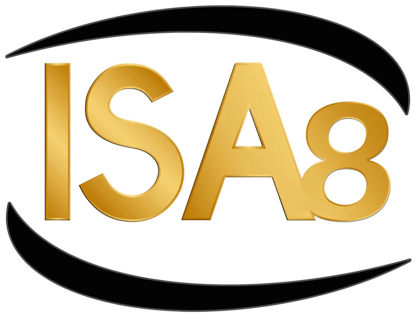 Logo for the 8th Indie Series Awards